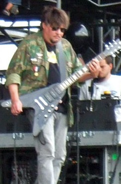 Ron Asheton at Virgin Mobile Festival, Day 2, August 10th, 2008